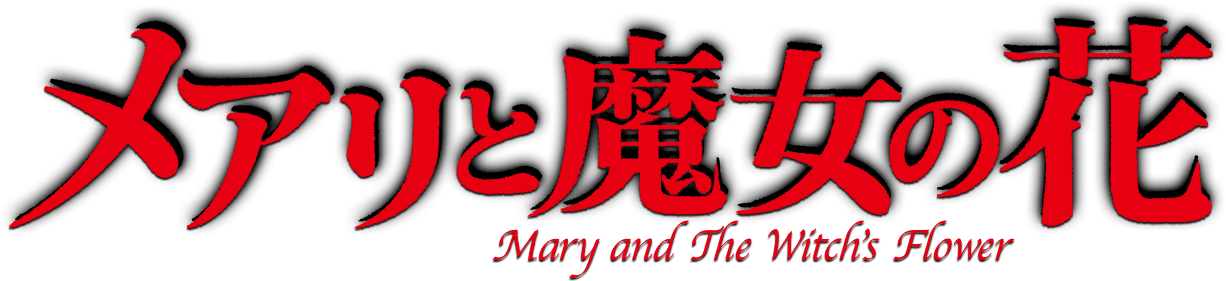 Logo of Mary and the Witch's Flower.